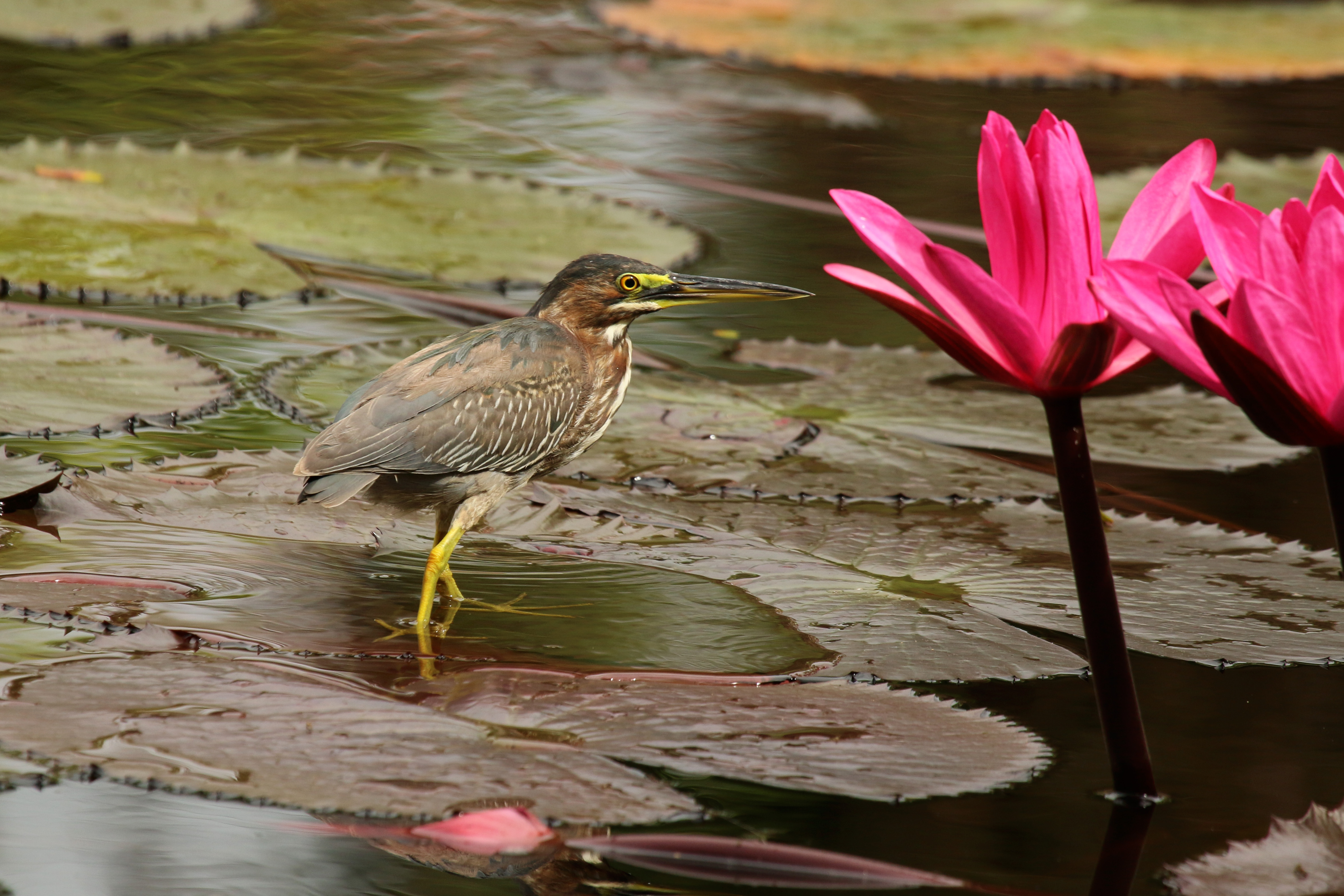 Green heron (Butorides virescens virescens) young adult, Tobago